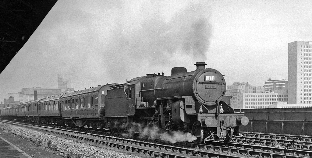 Westbound empty stock train passing Salford Station. View eastwards, towards Manchester Exchange/Victoria; ex-London & North Western lines Manchester Exchange - Liverpool etc., which paralleled the ex-Lancashire & Yorkshire lines westwards out of Manchester Victoria and passed through Salford Station. The locomotive is Hughes/Fowler 5P4F 2-6-0 No. 42810.